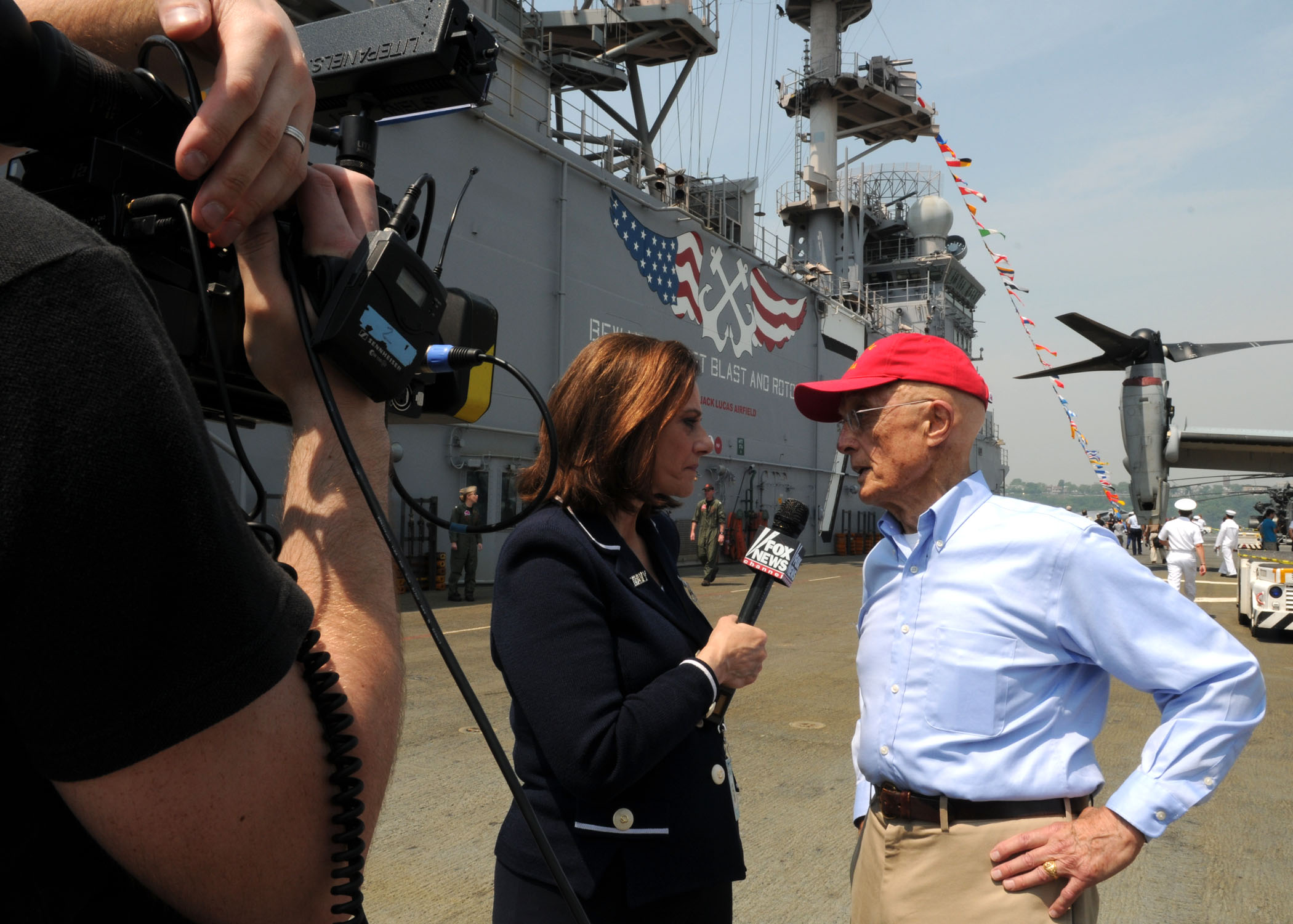 NEW YORK (May 27, 2011) Fox News reporter Kathleen T. McFarland interviews Battle of Iwo Jima veteran Lou Dipaolo on the flight deck of the multipurpose amphibious assault ship USS Iwo Jima (LHD 7). Approximately 3,000 Sailors, Marines and Coast Guardsmen are participating in the 24th Fleet Week New York, taking place May 25 through June 1. Fleet Week has been New York City's celebration of the sea services since 1984. It is an opportunity for citizens of New York and the surrounding tri-state area to meet Sailors, Marines, and Coast Guardsmen, as well as see first-hand, the capabilities of today's maritime services. (U.S. Navy photo by Mass Communication Seaman Natasha R. Chalk/Released)